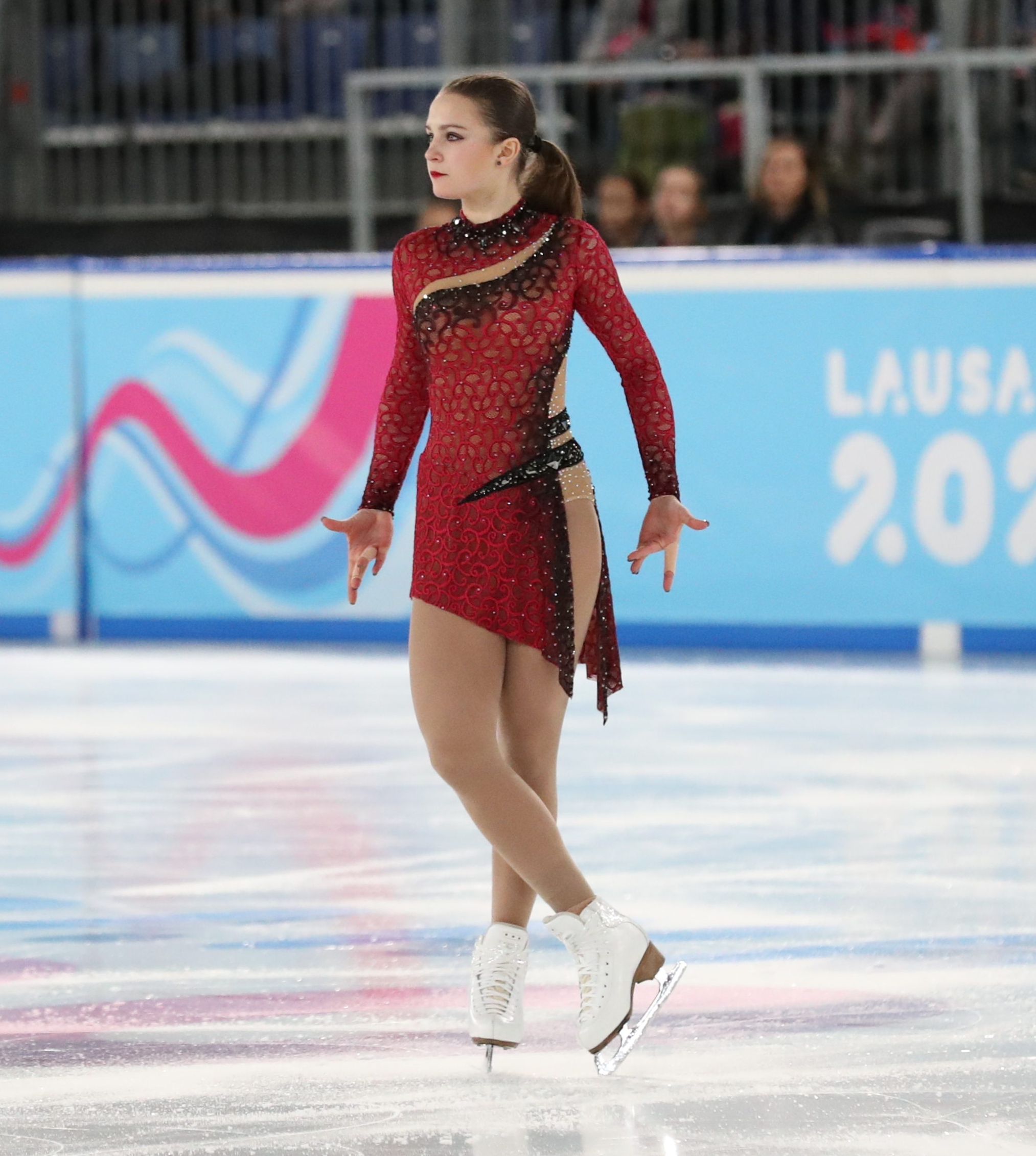 Women Single Figure Skating Short Program at the 2020 Winter Youth Olympics in Lausanne